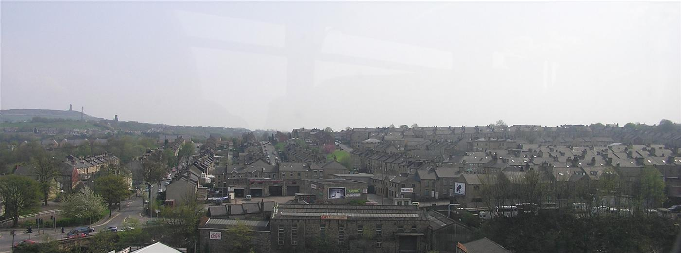 View of Thornton Lodge, Taken whilst passing South along the viaduct by train, over Longroyd Bridge. The Victoria Tower at Castle hill Can bee seen i the distance above the Clock at Newsome Mill.